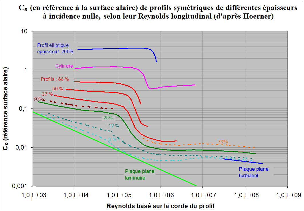 Cx (in reference to wing surface) of symmetrical profiles at zero incidence versus their Reynolds (based on the chord) according to S. Hoerner. This graph shows the drag crisis of these profiles.